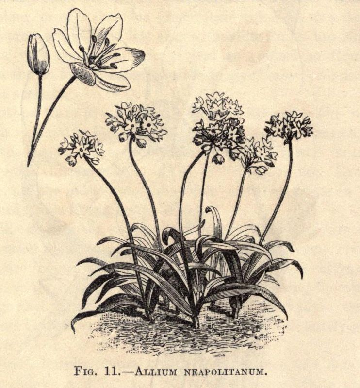 Allium neapolitanum Cirillo, illustration from 'Flowers of the French Riviera'